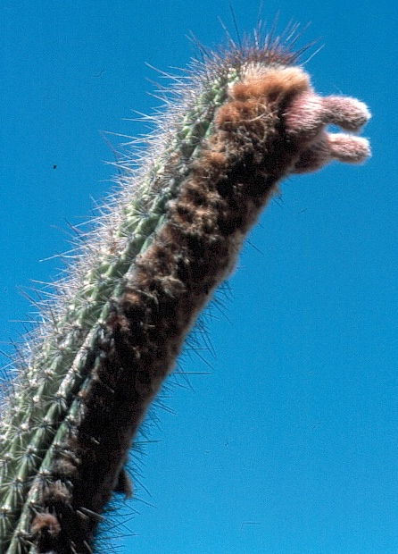 plant near Xique-Xique, N Bahia, Brasil